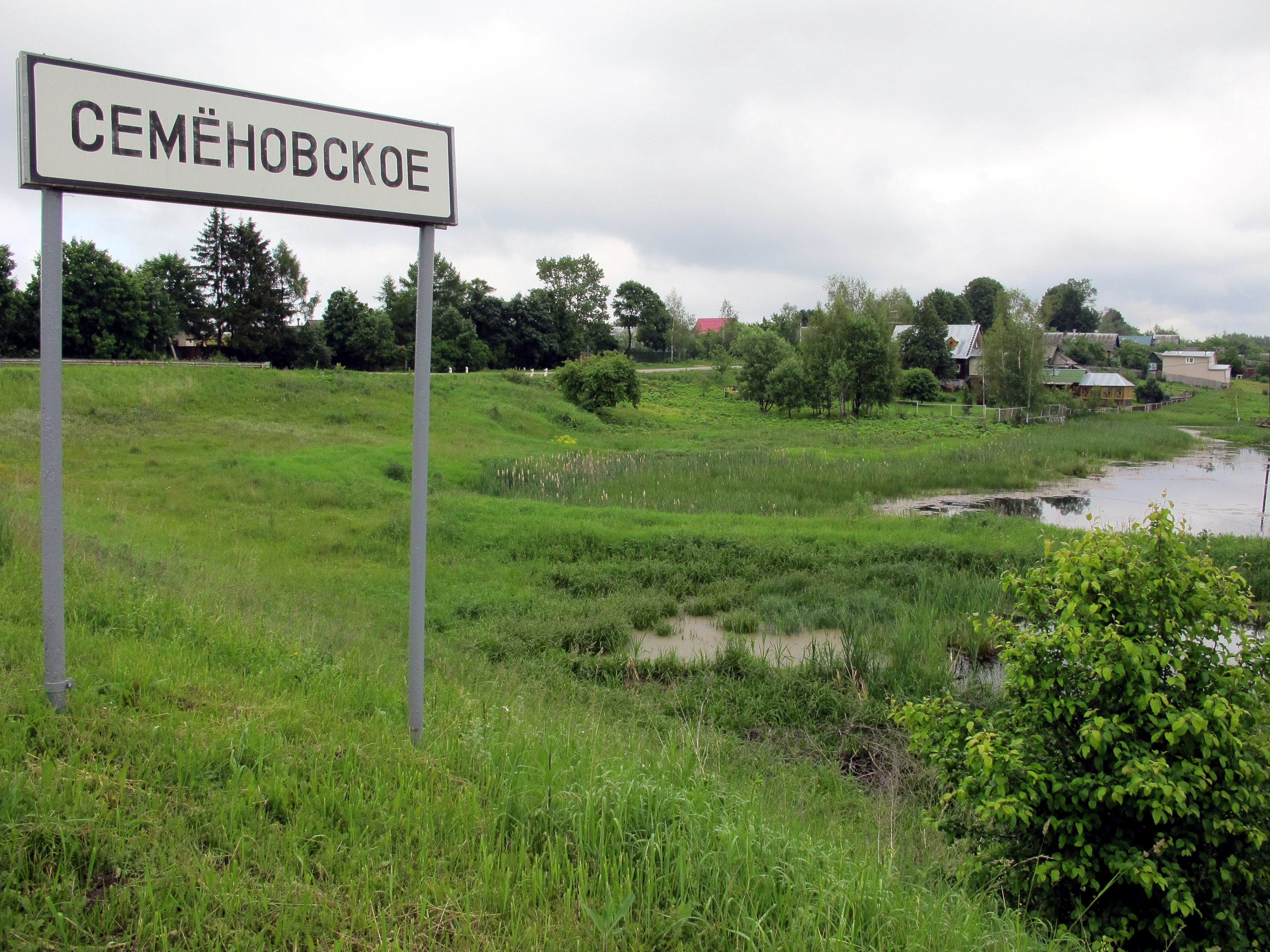 Semenovskoe (Borodino rural settlement, Mozhaysky District of Moscow Oblast; from west; 2012-06-10).